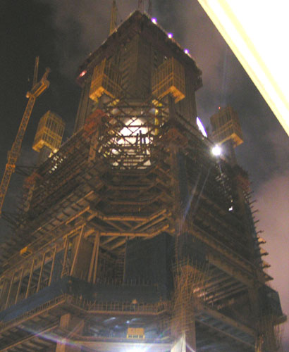 The future International Commerce Center